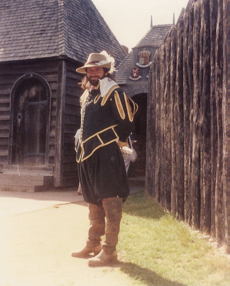 A reenactor portraying a 17th century soldier in the reconstructed Habitation at Port-Royal.